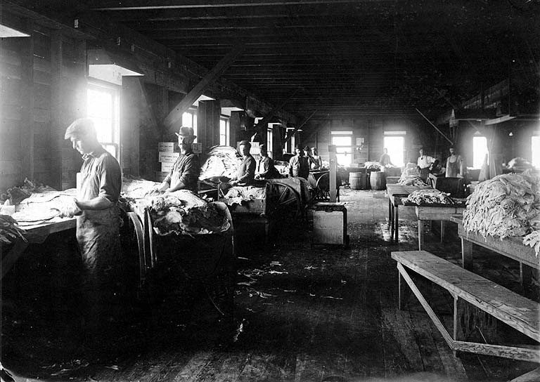 On verso of image: Robinson Fisheries Co., Anacortes, Wash. Skinning codfish in Cutting and Skinning Department . In Folder 206 Subjects (LCTGM): Canneries--Washington (State)--Anacortes Subjects (LCSH): Codfish--Washington (State)--Anacortes; Cannery workers--Washington (State)--Anacortes; Robinson Fisheries Company; Robinson Fisheries Company--Employees